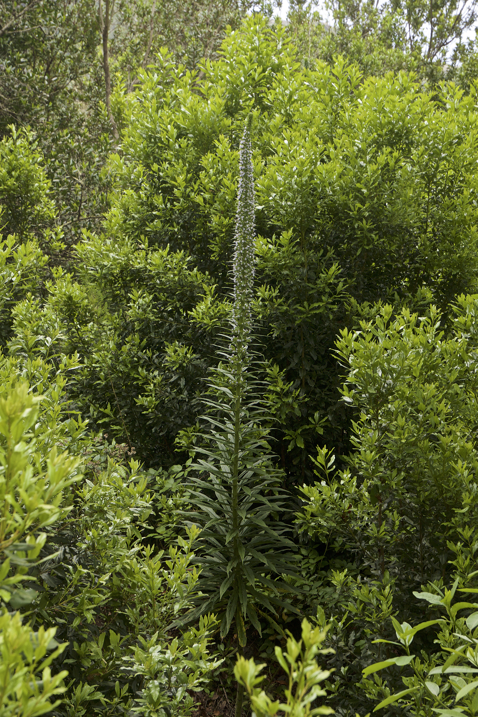 Pine Echium (Echium pininana) in native habitat, Barranco del Agua, La Palma, Spain